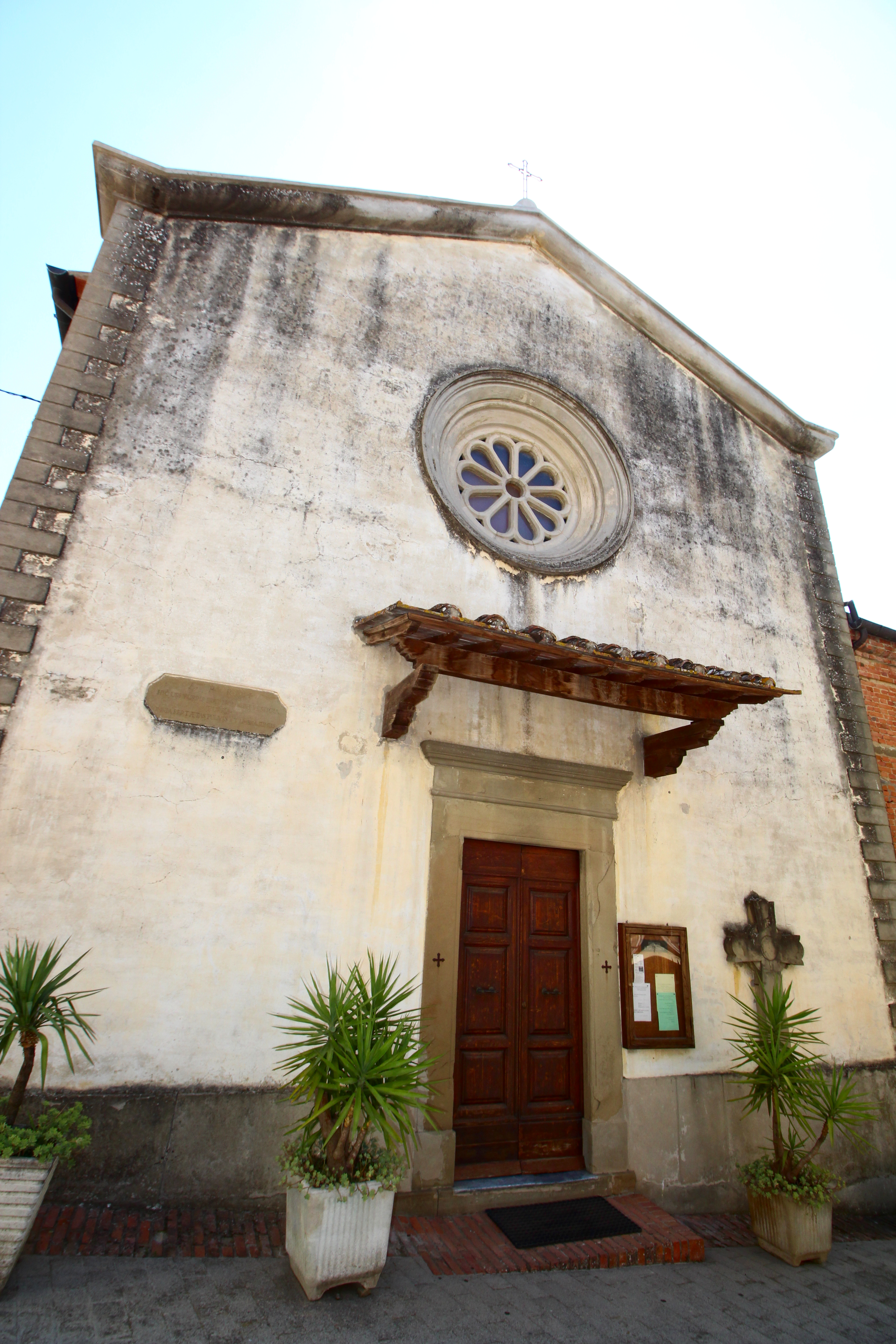 Church Santi Giovanni Battista e Marino, Pieve San Giovanni, hamlet of Capolona, Province of Arezzo, Tuscany, Italy